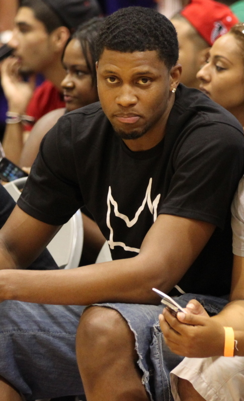 Rudy Gay watches the Drew League vs Goodman League game.